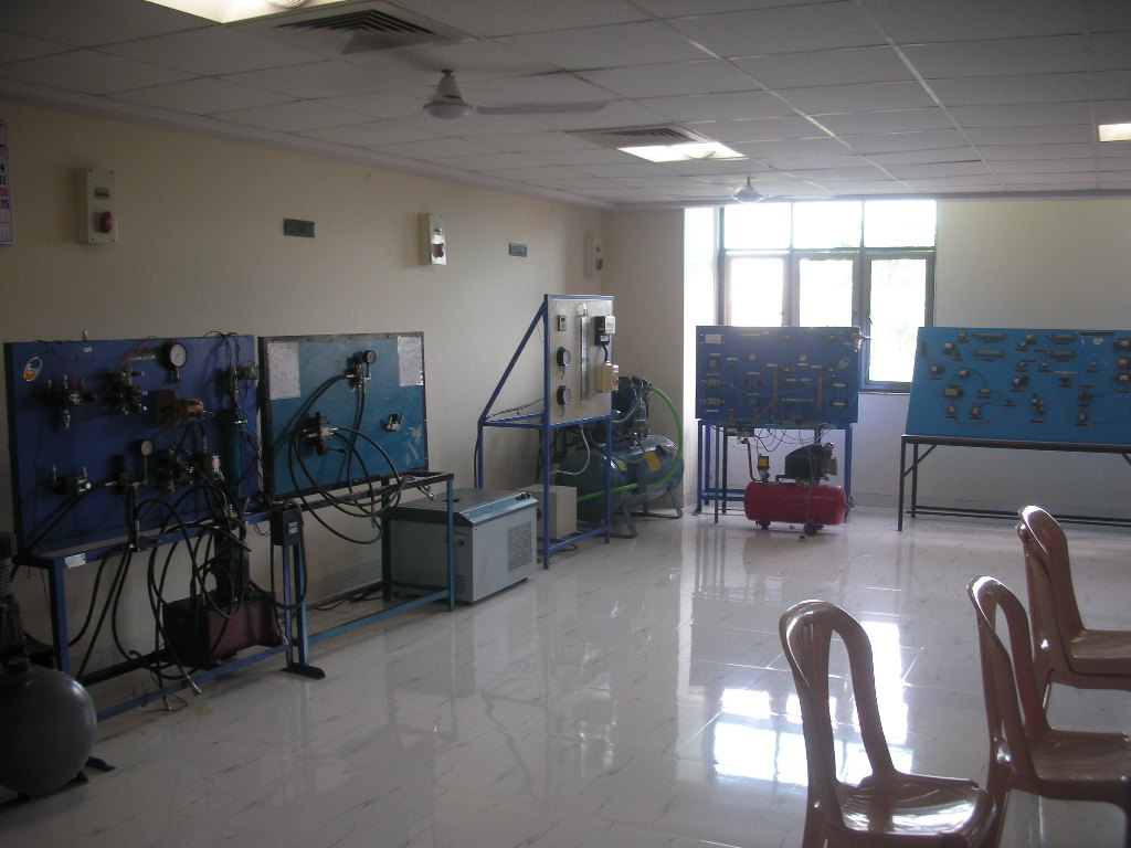 instrumentation engineering's lab at parshvanath college of engineering.